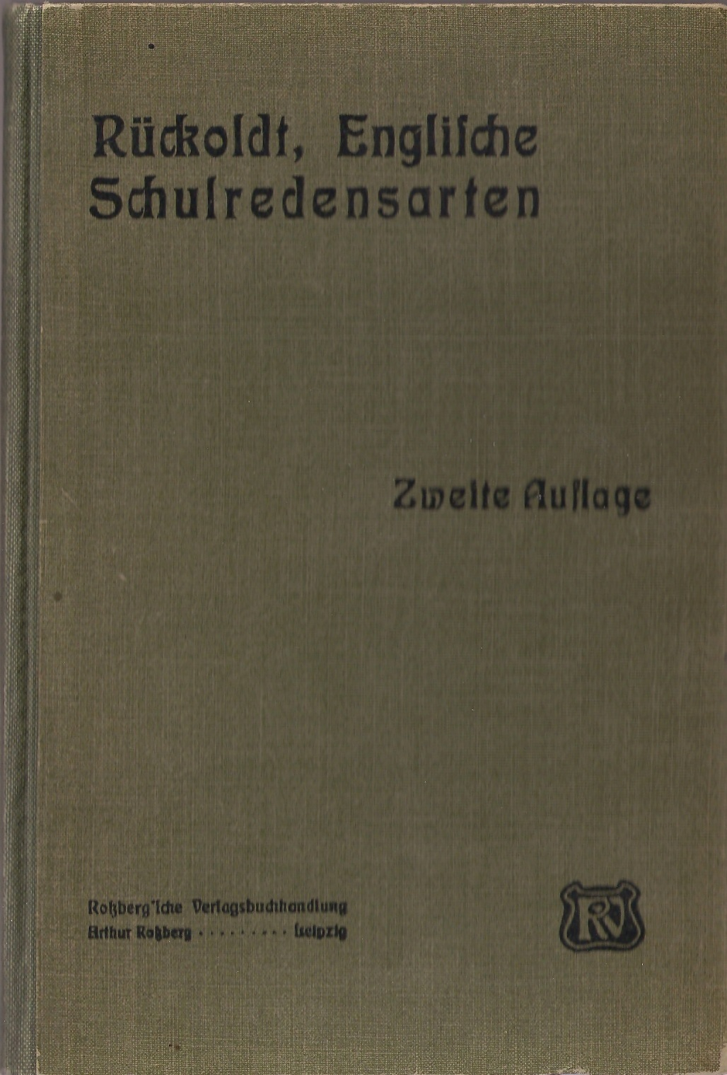 Front cover of the second edition of Armin Rückoldt's book "Englische Schulredensarten für den Sprachenunterricht", published in 1909 in Leipzig, Germany.